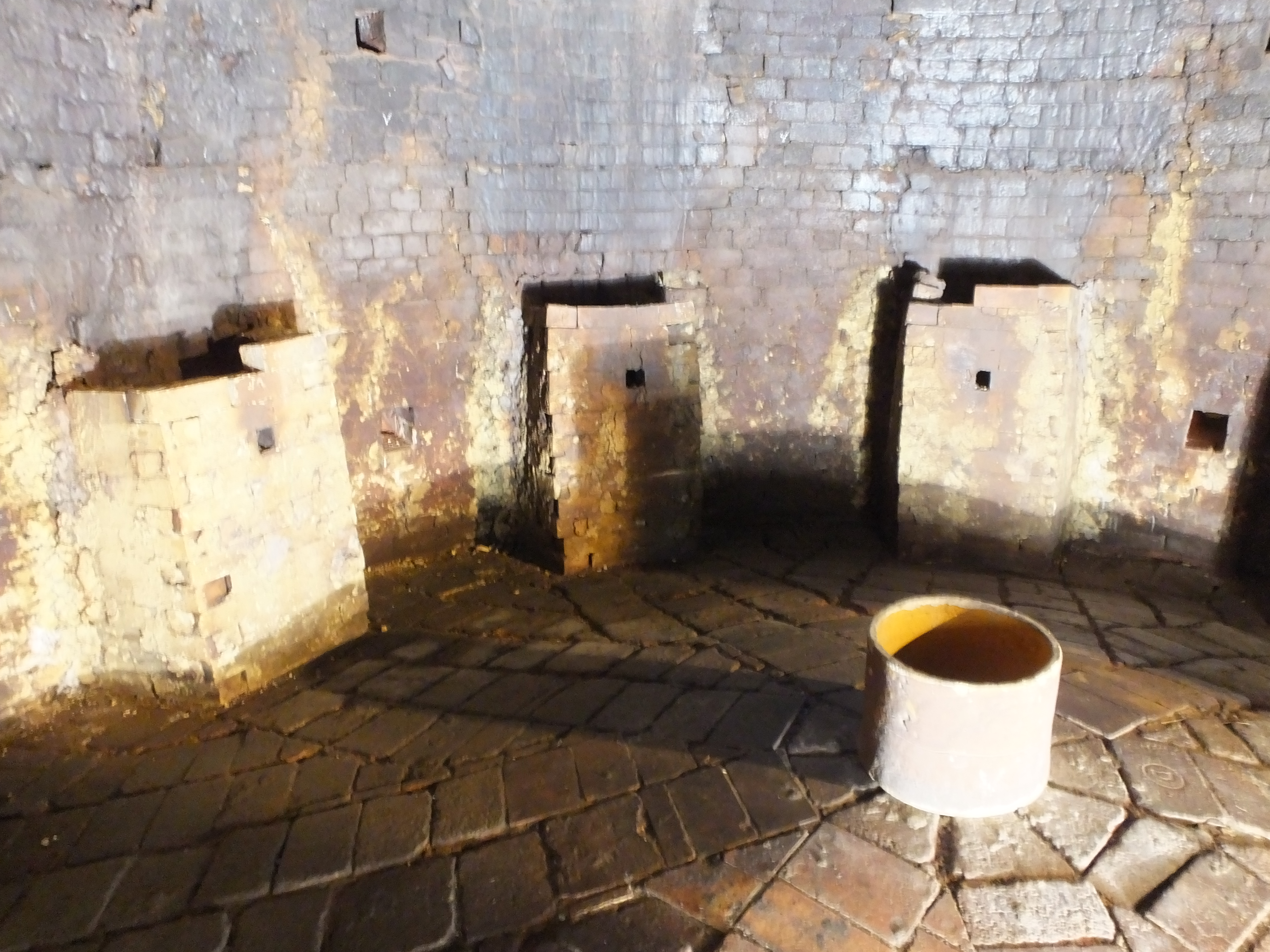 The Gladstone Pottery Museum The Gladstone Pottery Museum is a grade II* listed site in Stoke-on-Trent, with many protected features including the bottle kilns. Bottle oven A bottle oven is protected by an outer hovel which helps to create an updraught. The biscuit kiln was filled with saggars of green flatwares (bedded in flint) by placers. The doors (clammins) were bricked up and the firing began. Each firing took 14 tons of coal. Fires were lit in the firemouths and baited ever four hours, Flames rose up inside the kilns, heat passed between the bungs of saggars. They controlled the temperature of the firing using dampers in the crown. The temperature was gauged by watching the contraction of bullers rings place in the kiln. A kiln would be fired to 1250C The biscuitwares are glazed and fired again in the bigger glost kilns- again they are placed in saggers, separated by kiln furniture such as stints, saddles and thimbles. The enamel (or muffle kiln) is of different construction- it fired at 700C. The pots were stacked on 7 or 8 levels of clay bats (shelves). The door was iron lined with brick.